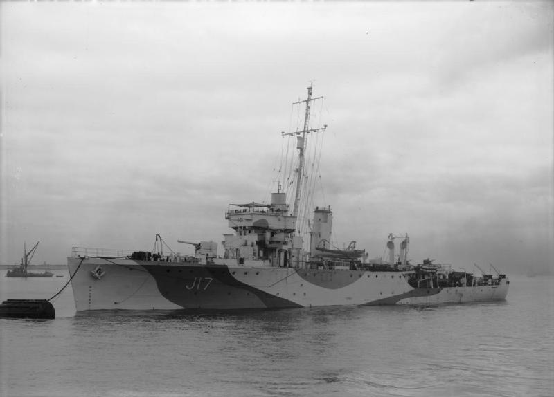 Photograph of British Halcyon class minesweeper HMS Speedy.